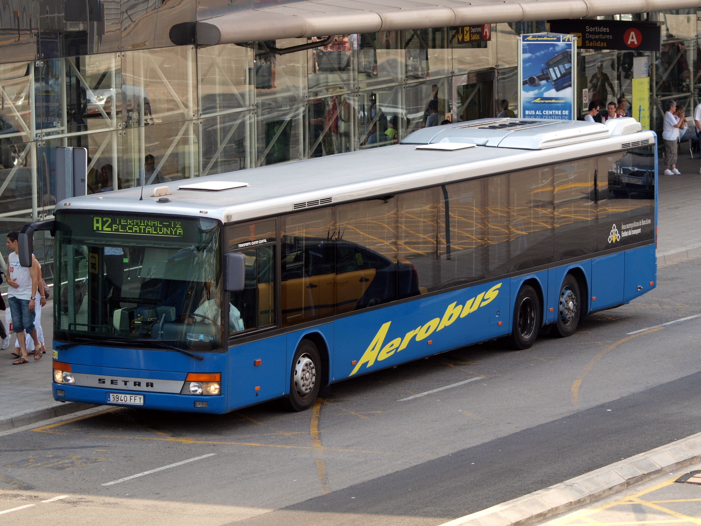 Photographed at Barcelona. Setra Aerobus